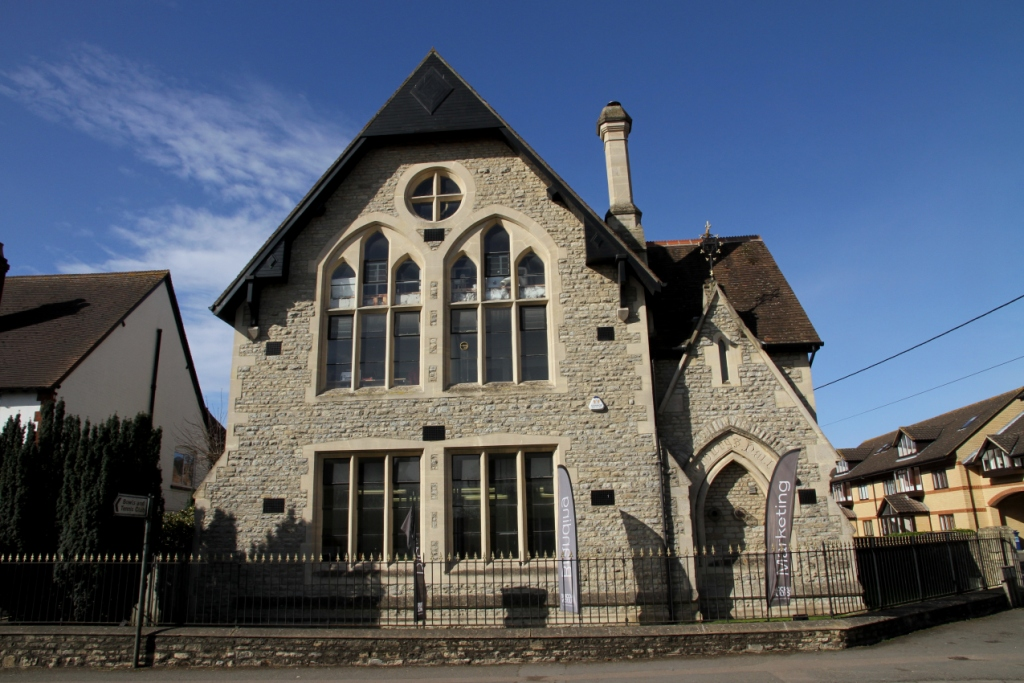 St Edburg's Hall, London Road, Bicester, Oxfordshire, on the corner of Priory Road. Designed by the Gothic Revival architect E.G. Bruton and built in 1882 for St Edburga's parish church. It included assembly, reading and refreshments rooms. It is now offices.